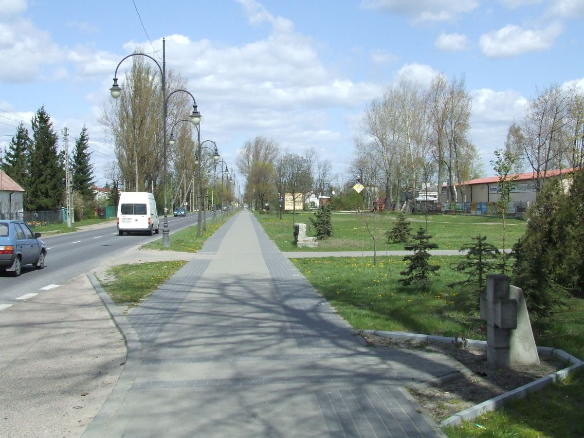 Radzymin road, place of battle in 1920